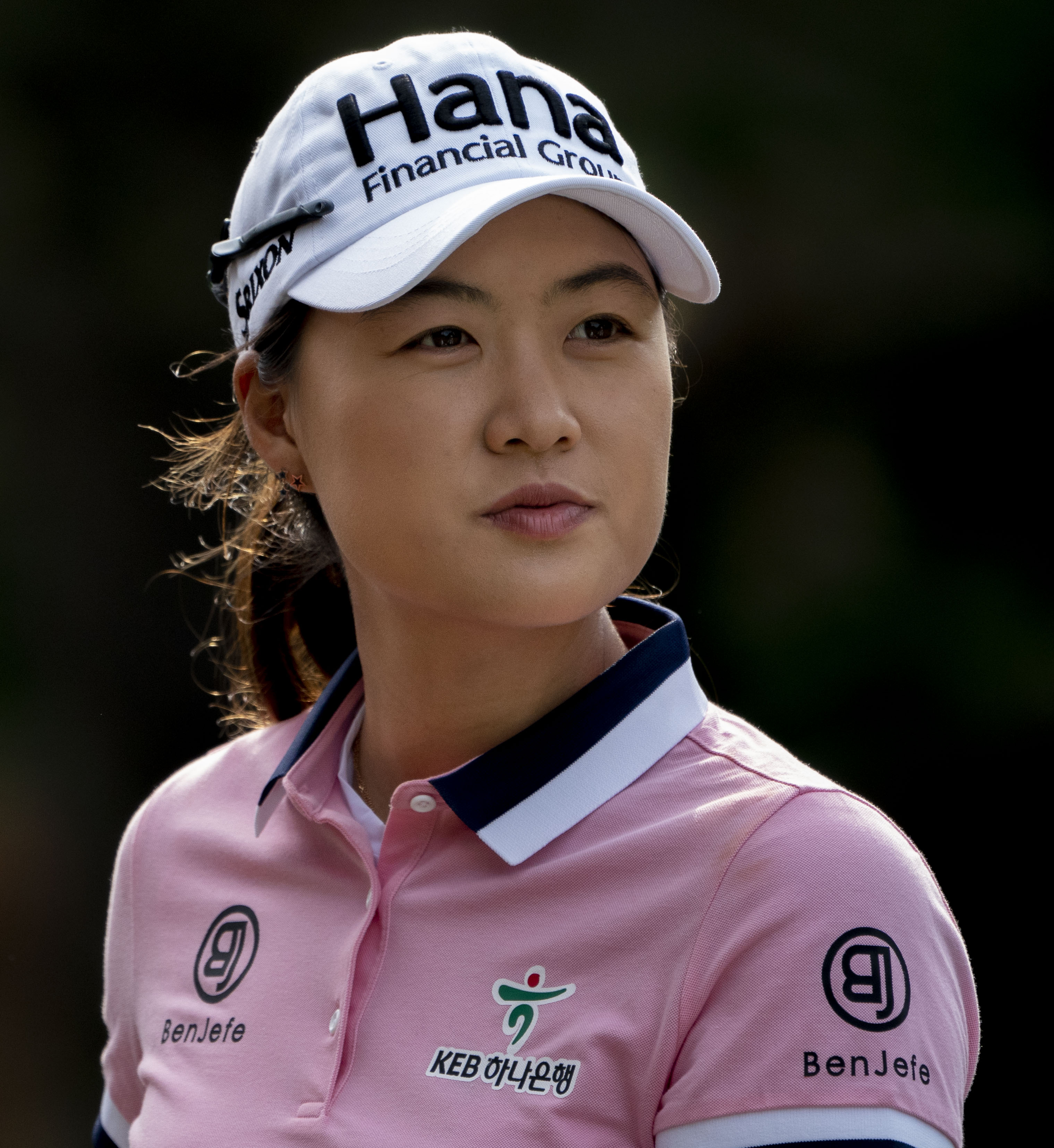 2018 LPGA Kingsmill Tournament